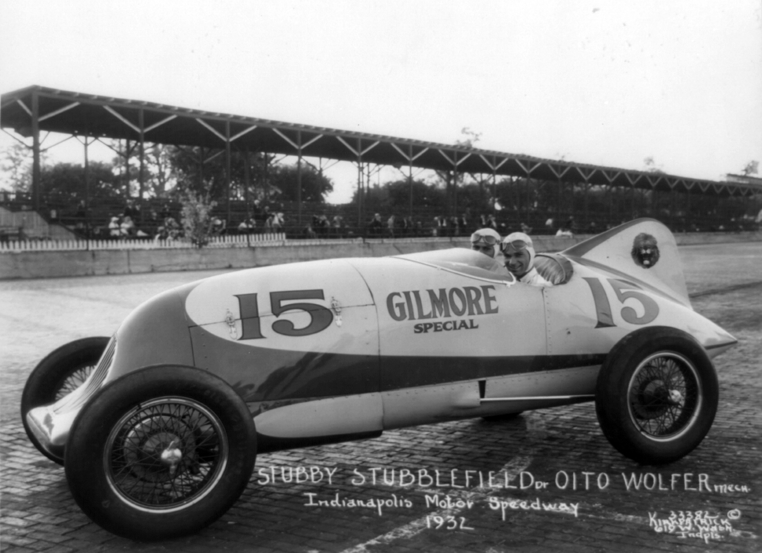 Stubby Stubblefield, American auto racer, with his mechanic, Otto Wolfer, misspelled in this picture, at the Indianapolis Motor Speedway